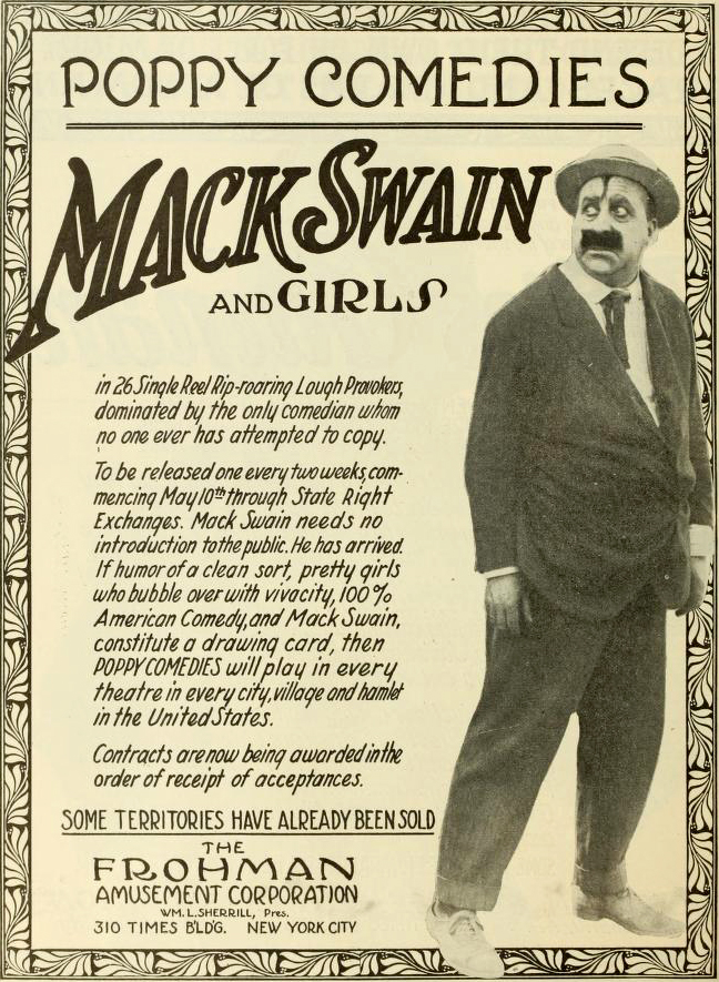 Advertisement, Moving Picture World, May 1919